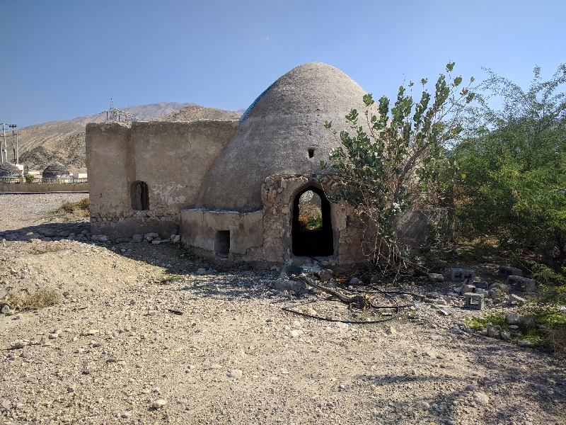 Alfateh khan Cistern in Bastak city of hormozgan province - iran